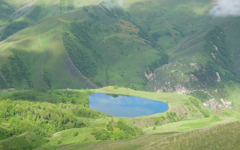 Galayn-Am Lake in Chechnya